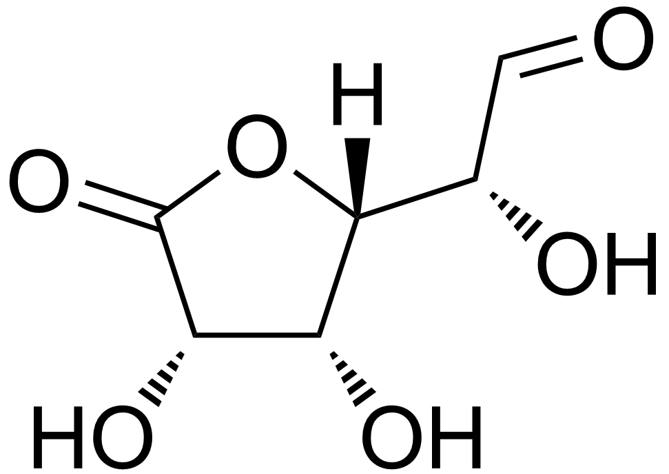 chemical structure of D-glucuronolactone